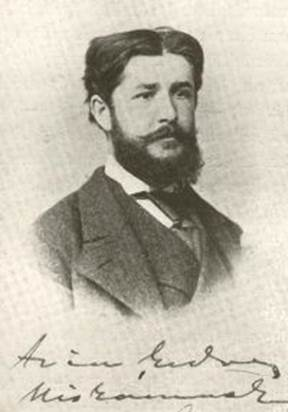 Photograph of Hungarian Painter László Paál (1873)